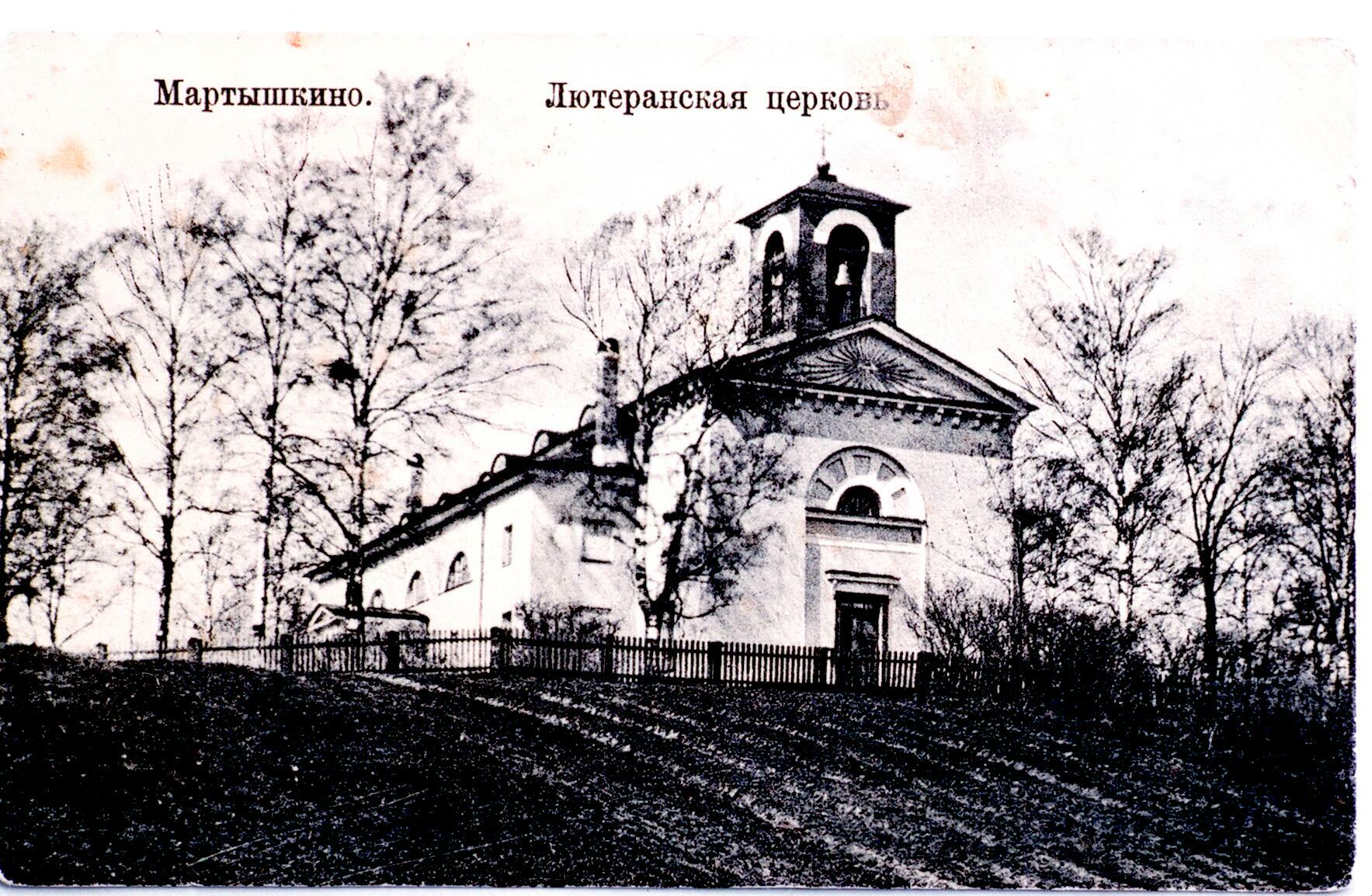 Lomonosov (Russia)